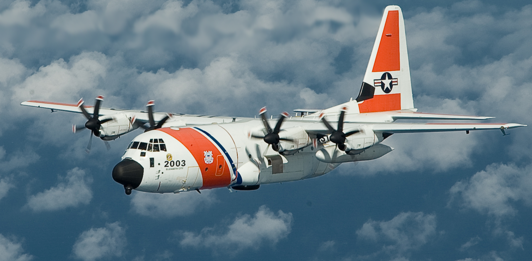 USCG HC-130J in flight